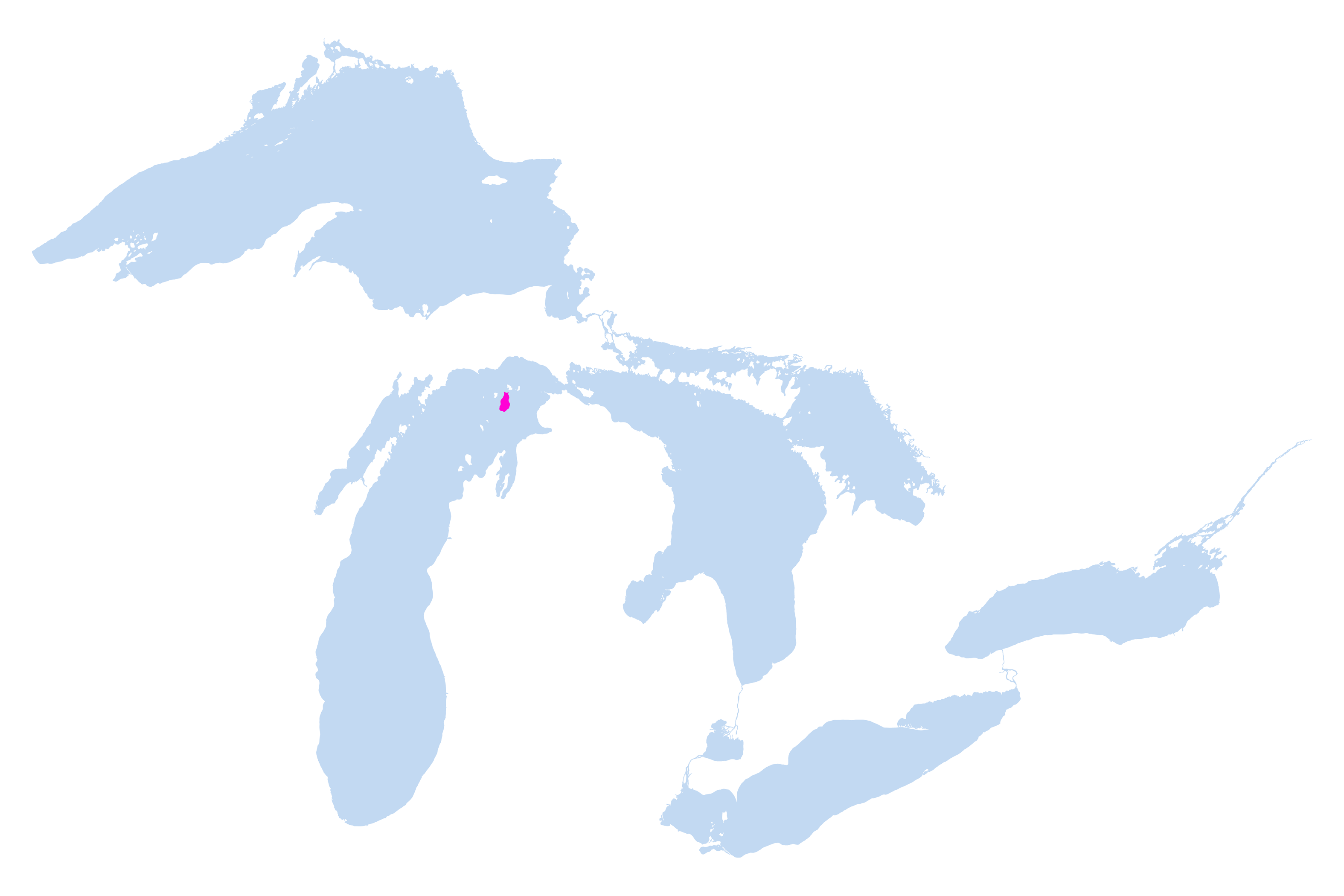 Location of Beaver Island, MI